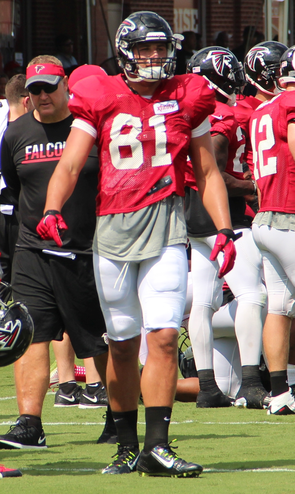 Austin Hooper in 2016